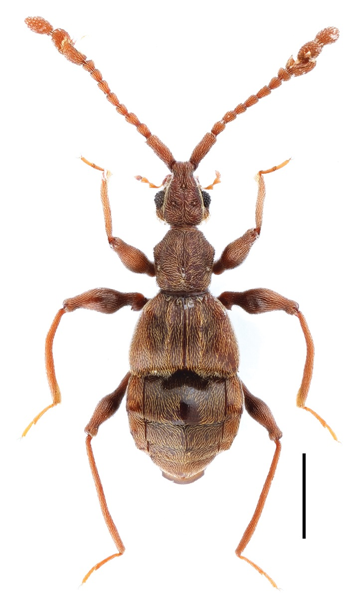 Male habitus of Labomimus vespertilio. Scale: 1.0 mm.